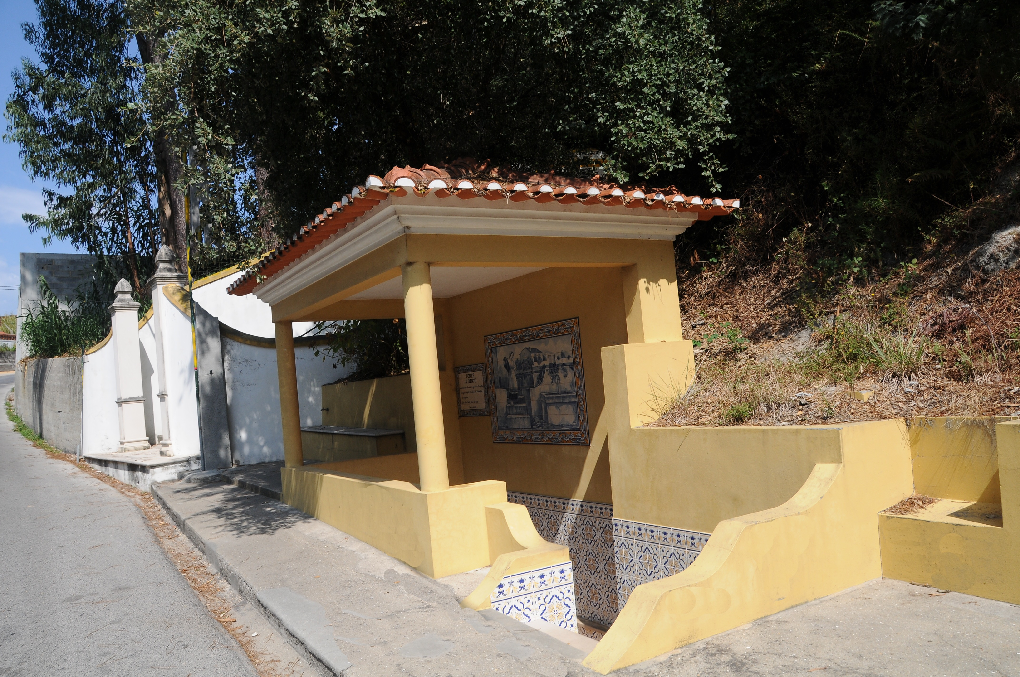 São Bento Fountain in Corticeiro de Baixo, Carapelhos, Mira Portugal.